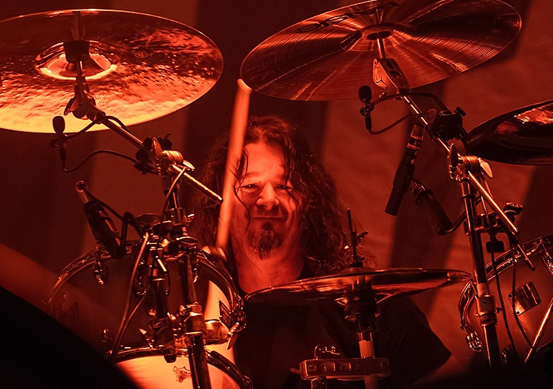 Paul Bostaph, drummer of Slayer, performing live at With Full Force 2013